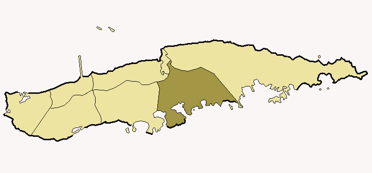 Map of Vieques (Puerto Rico) highlighting Puerto Ferro ward